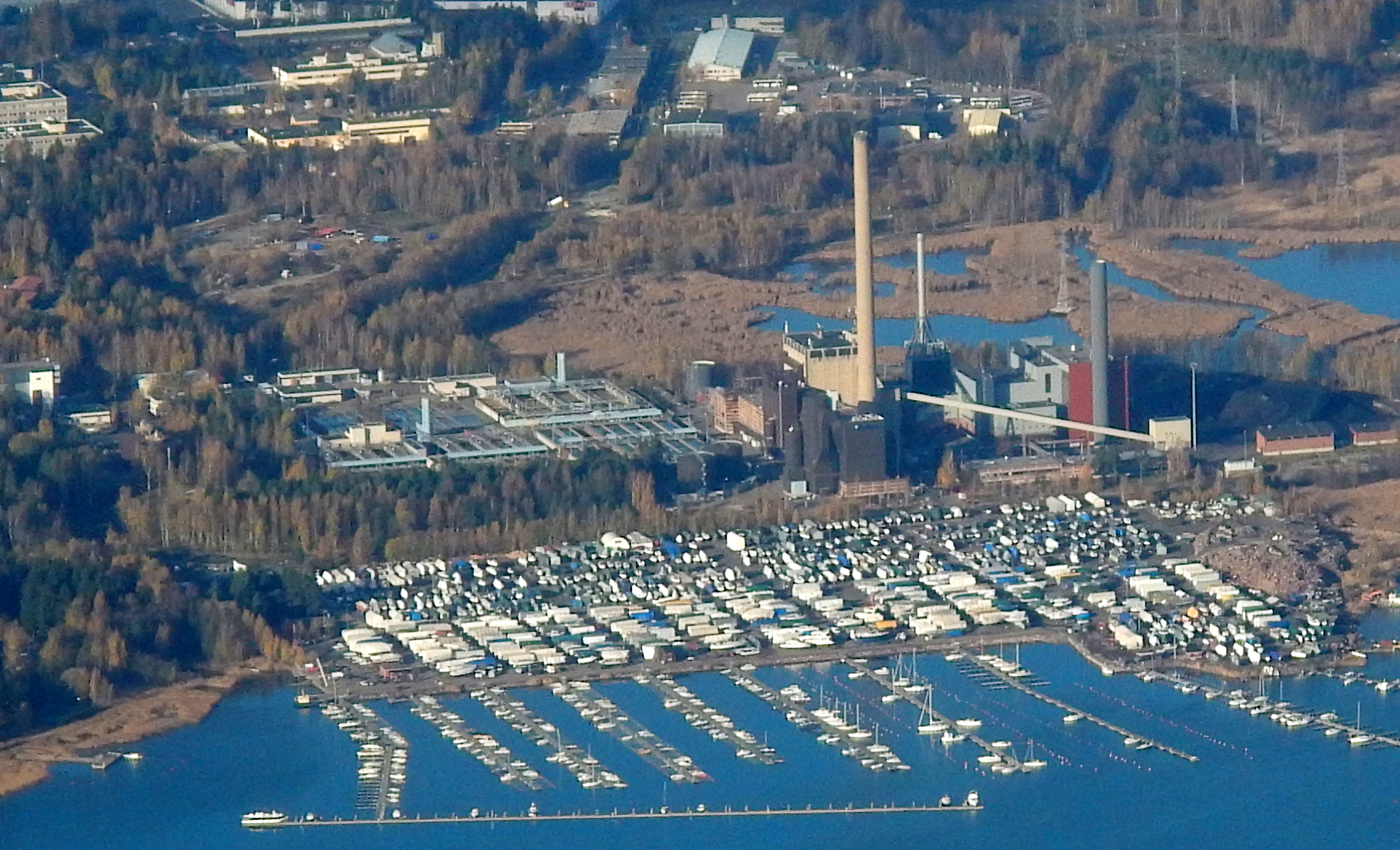 Suomenoja power plant and harbour in Espoo, Finland